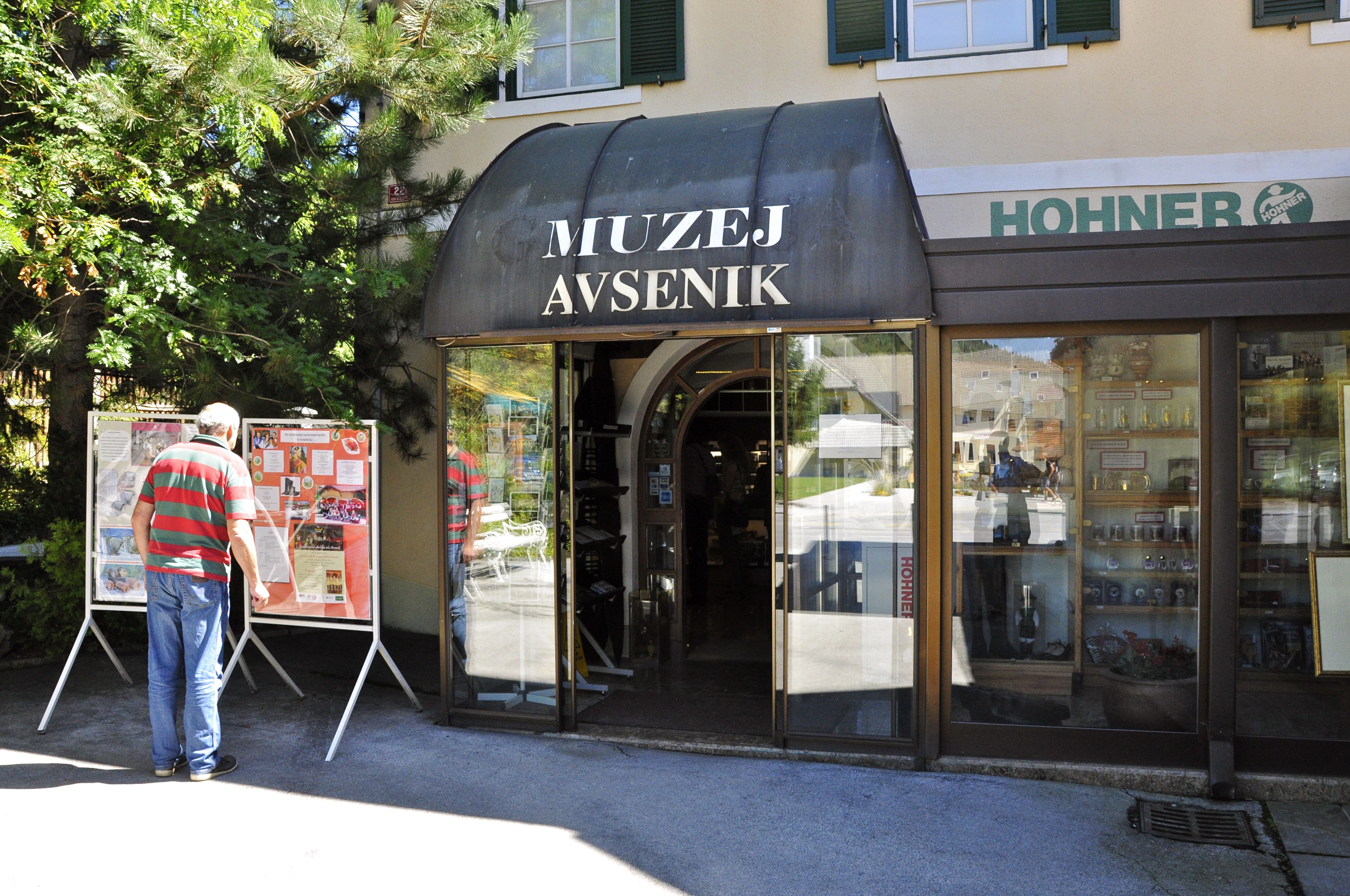 Avsenik museum in Begunje, municipality Radovljica / Upper Carniola / Slovenia / EU